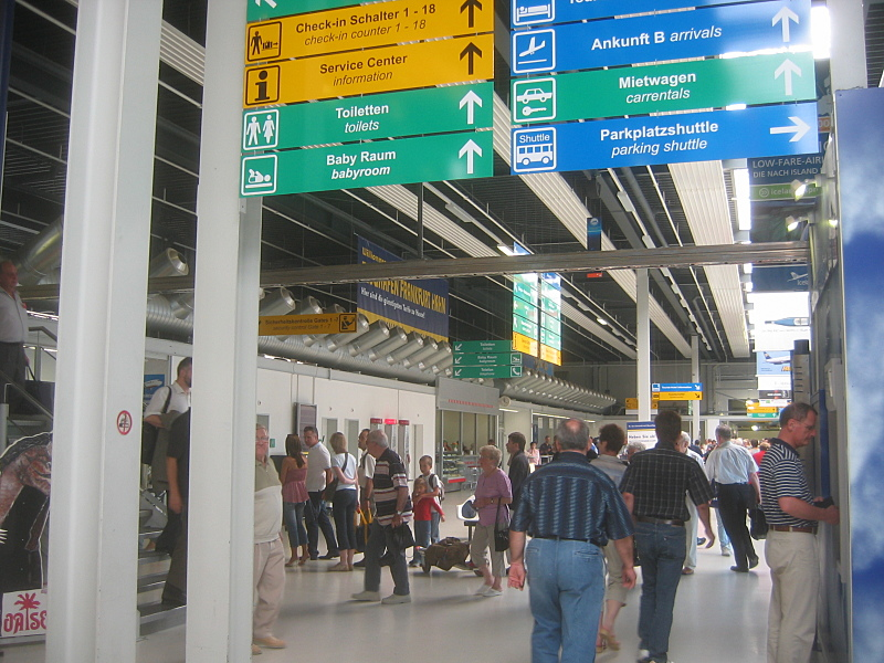 Interior of the terminal at Frankfurt-Hahn Airport